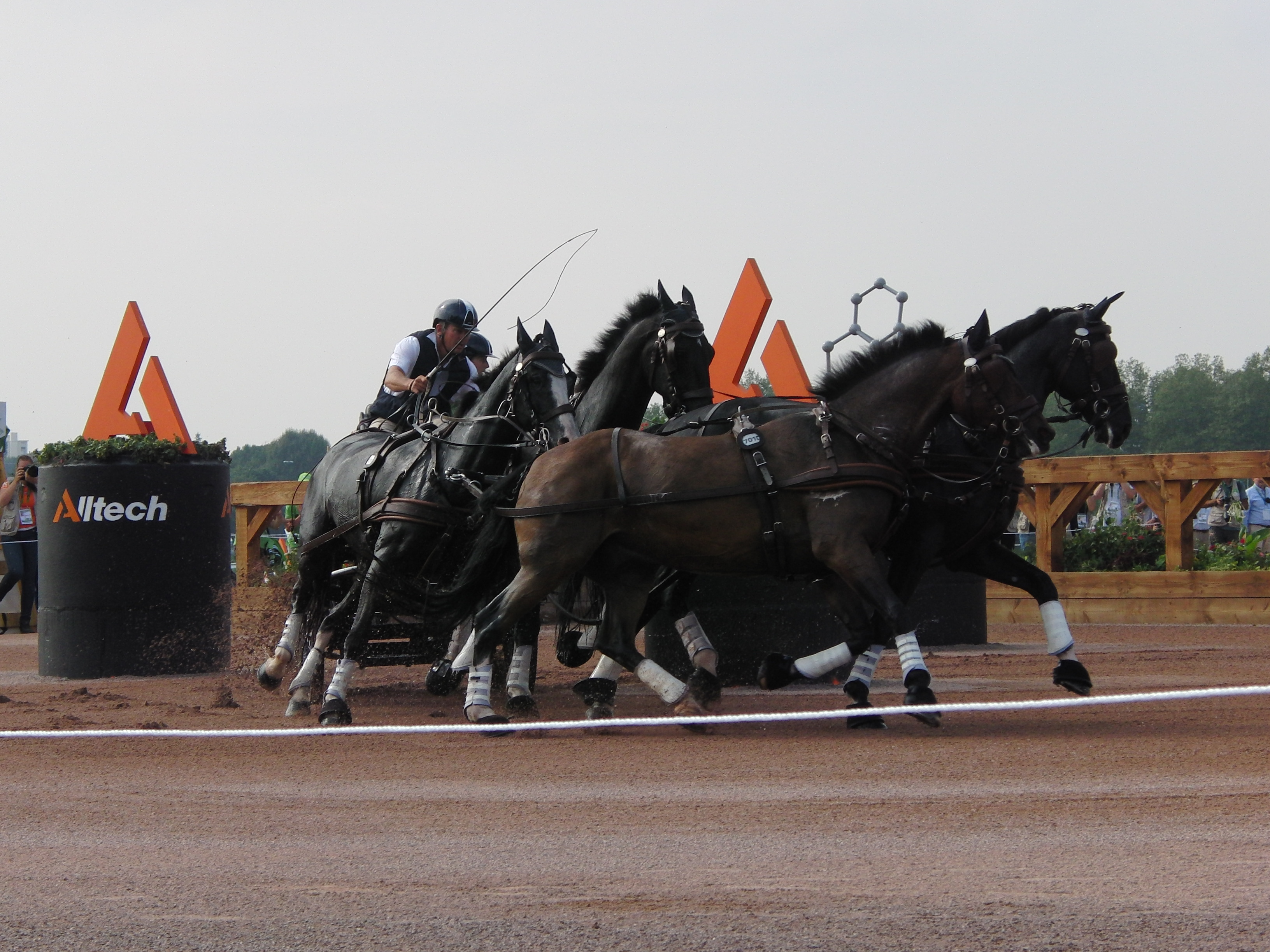 2014 FEI World Equestrian Games - Driving - Marathon - Boyd Exell for Australia